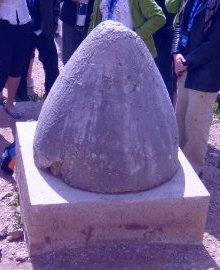 The omphalos stone displayed outside at Delphi, Greece.